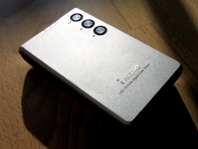 I took this picture myself